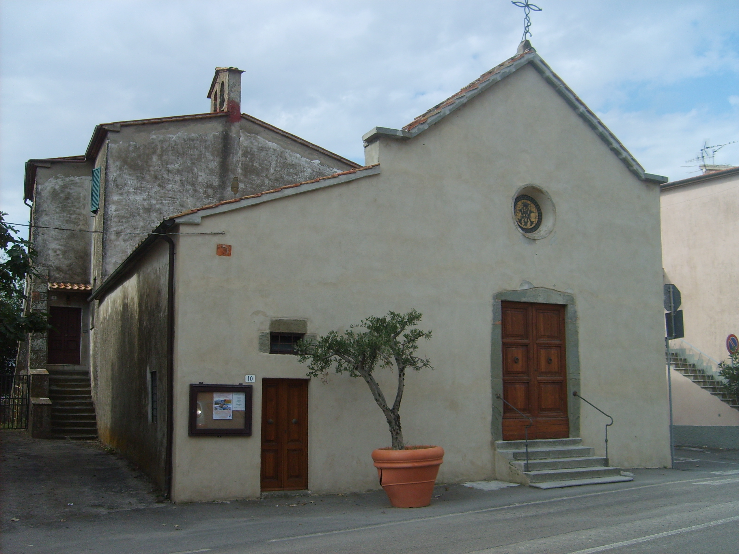 Chiesa del Santissimo Nome di Maria in Pancole, Scansano, Grosseto